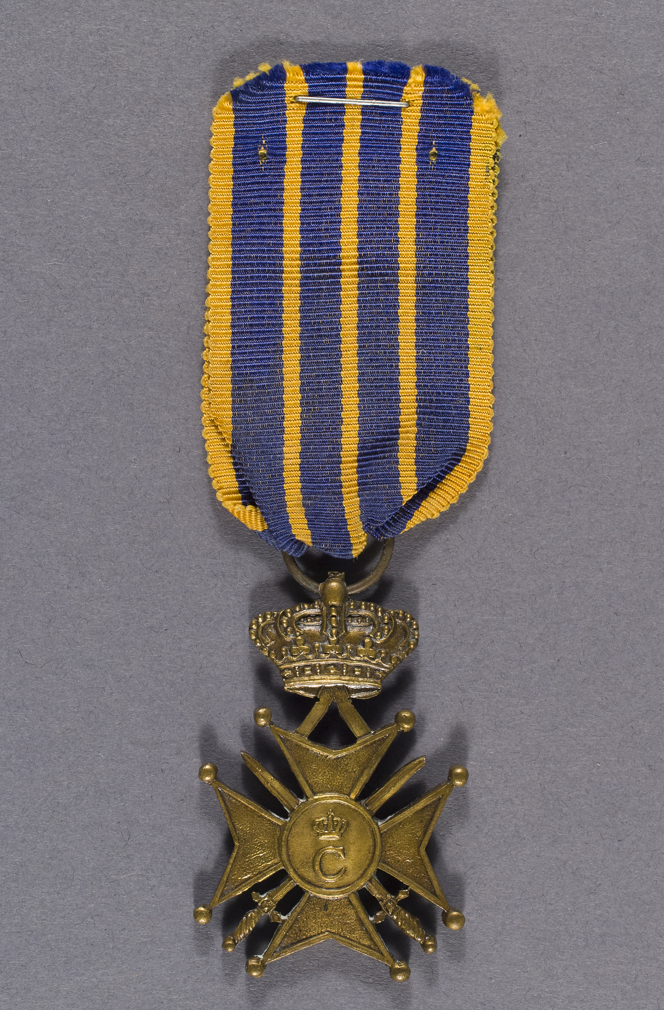 Luxembourg War Cross (obverse)